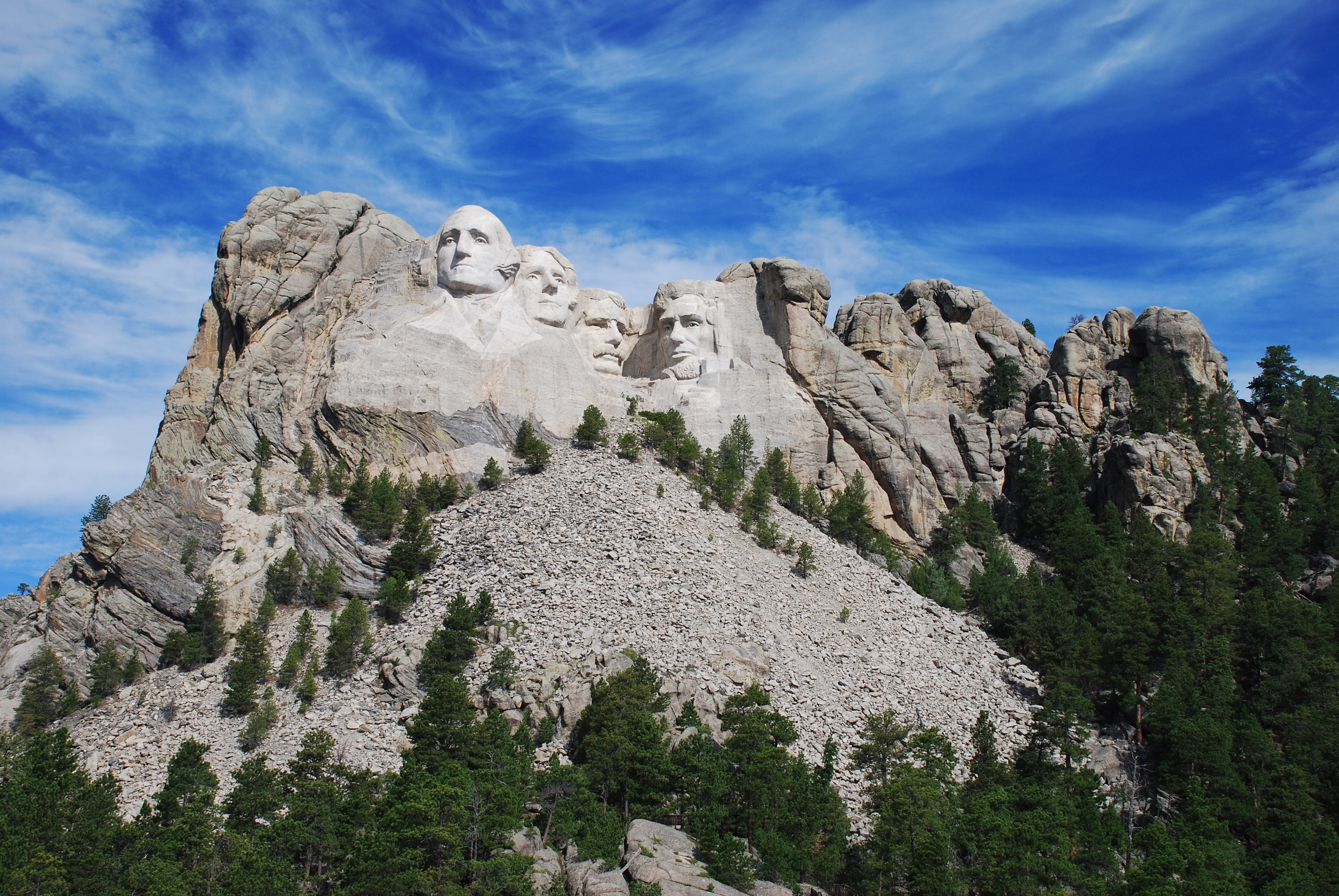 Mount Rushmore with the morning sun shining on the faces of the monument.